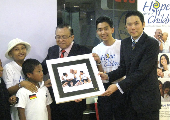 Malaysian photographer Kid Chan presenting an image to a cancer survivor and his family in support of the "Hope for the Children" campaign of the National Cancer Society of Malaysia.